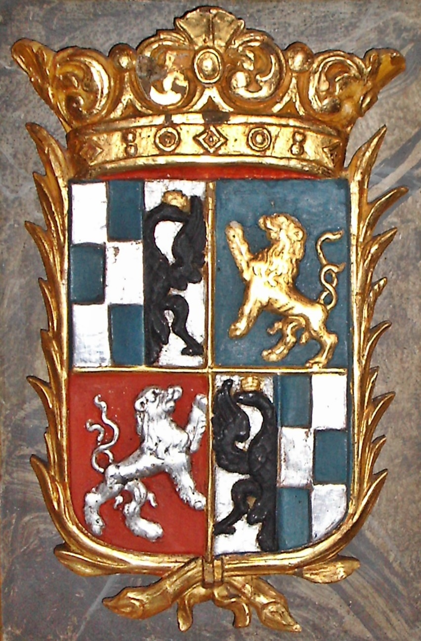 Coat of arms (simple Form): von Merz, Merz/Mertz von Quirnheim, Baron of Bosweiler and Quirnheim